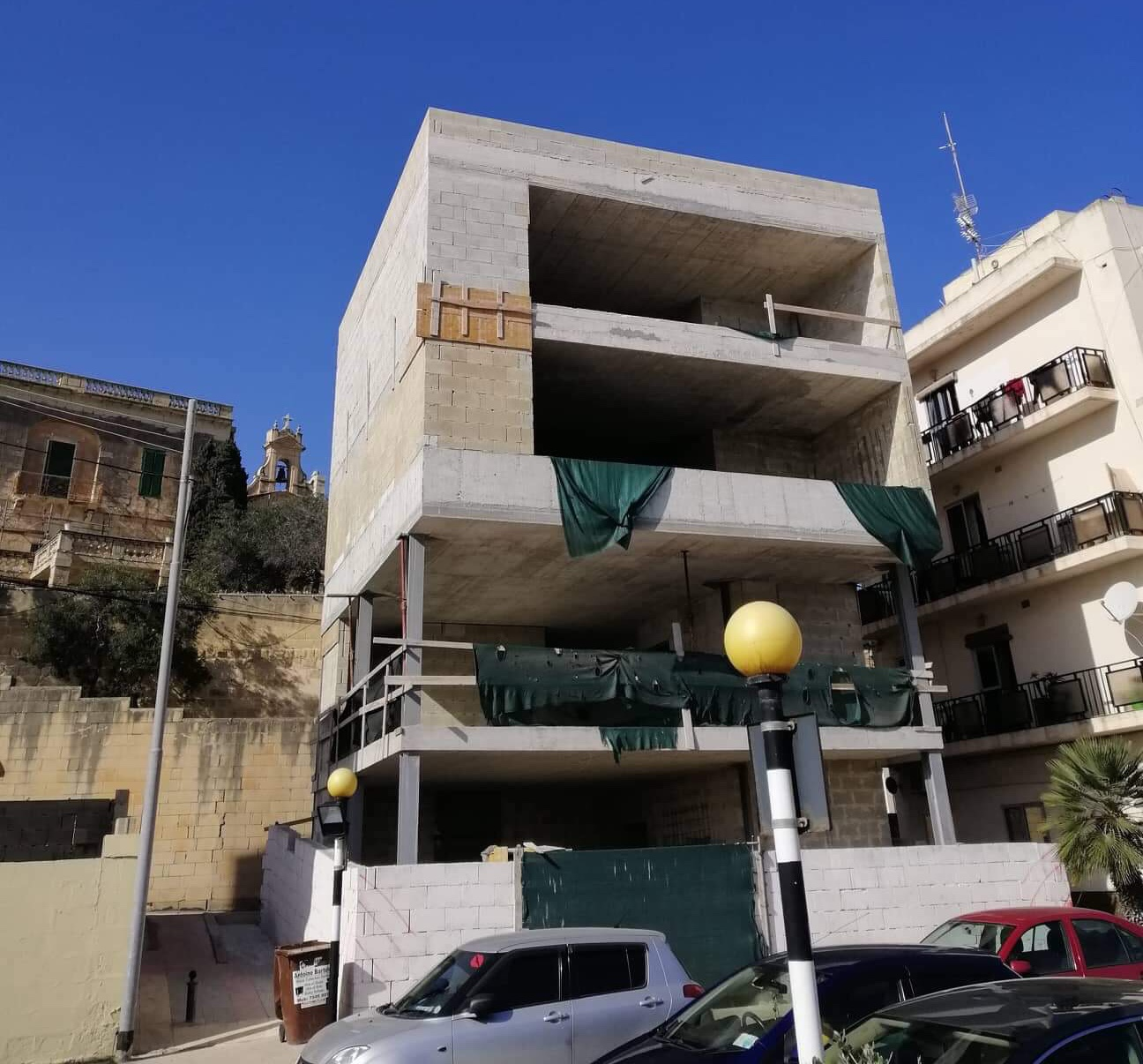 3, Marina Street